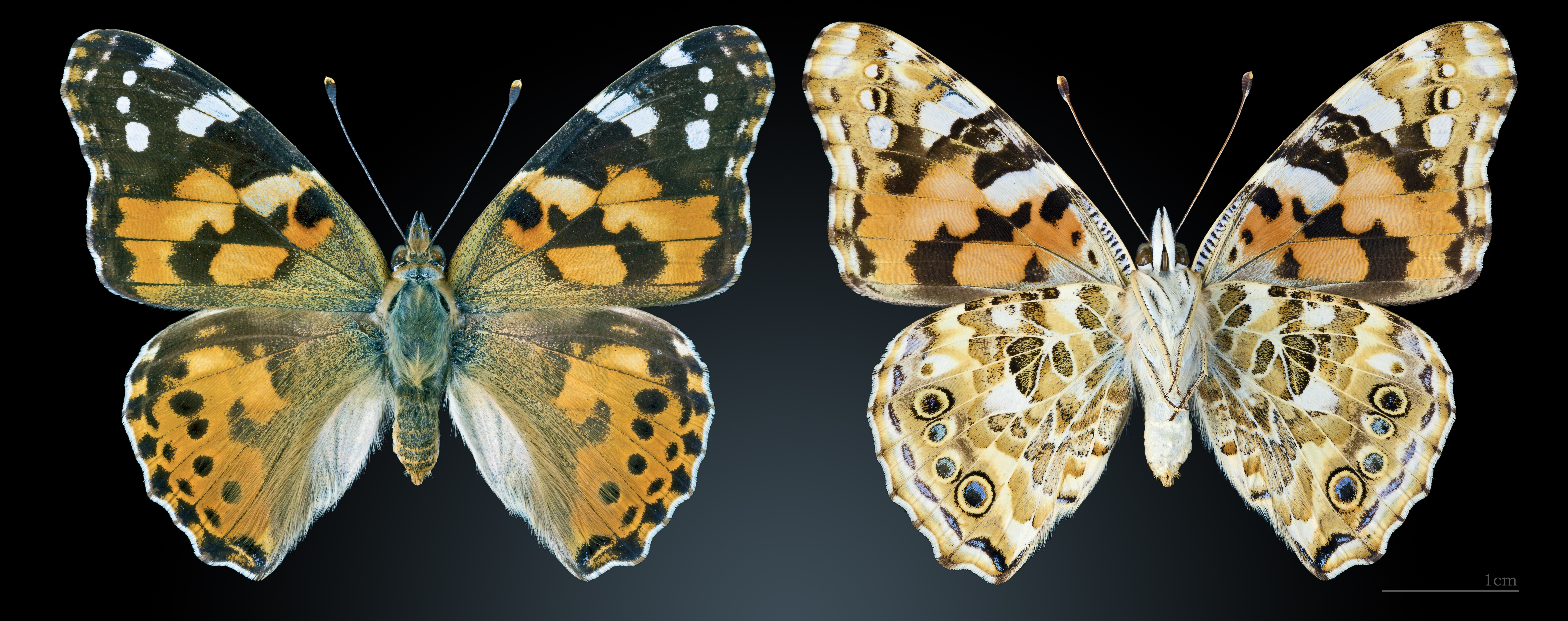 Painted Lady - Two views of same specimen